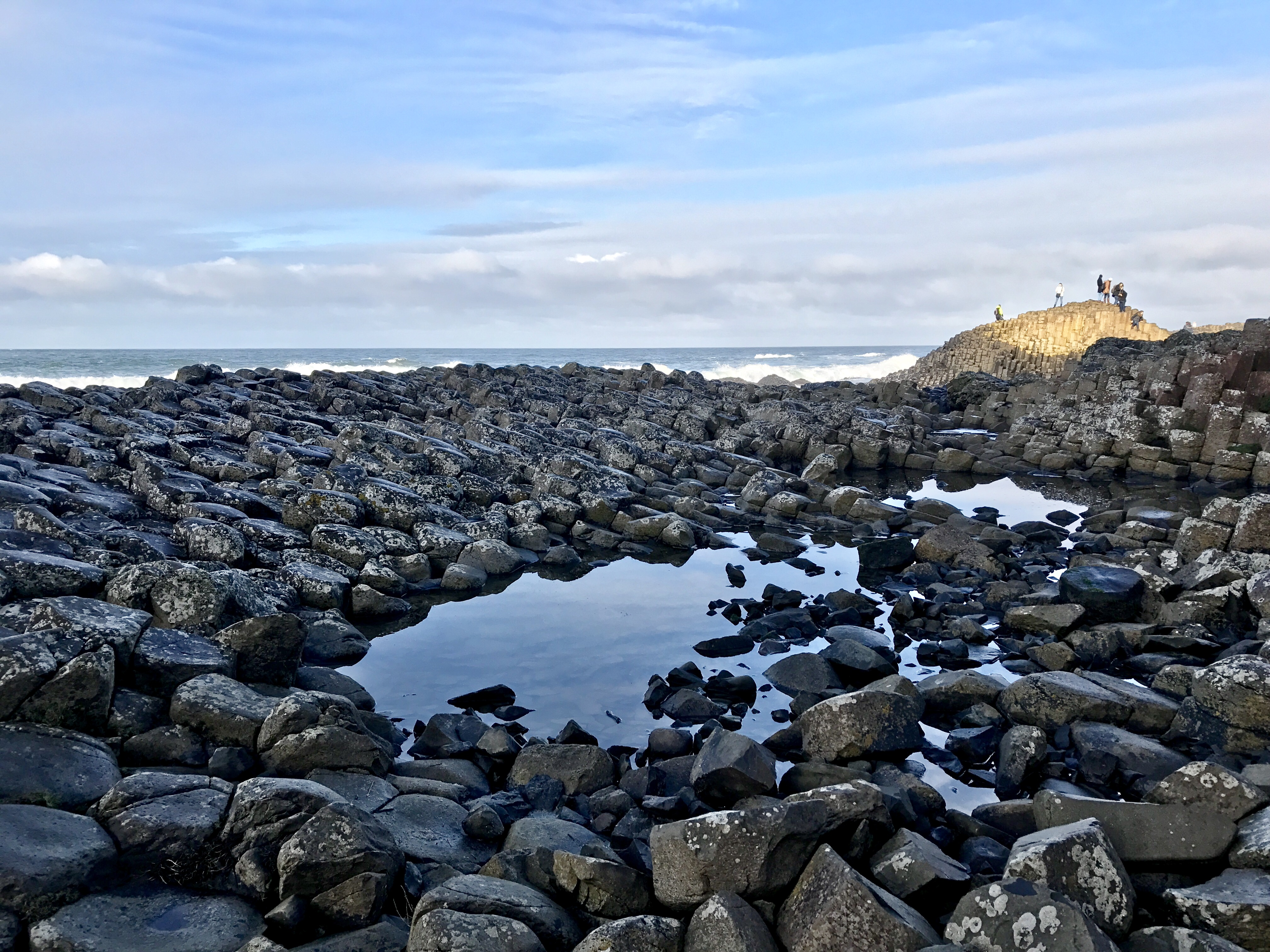 Giant's Causeway Bắc Ireland